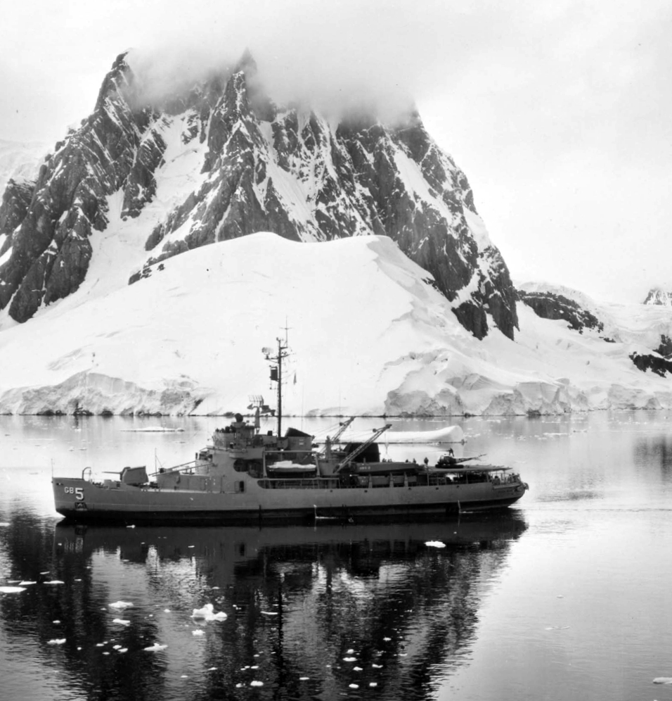 The U.S. Navy icebreaker USS Staten Island (AGB-5) with an HUL-1 helicopter on board approaches the Palmer Peninsula during Antarctic operations in April 1963.